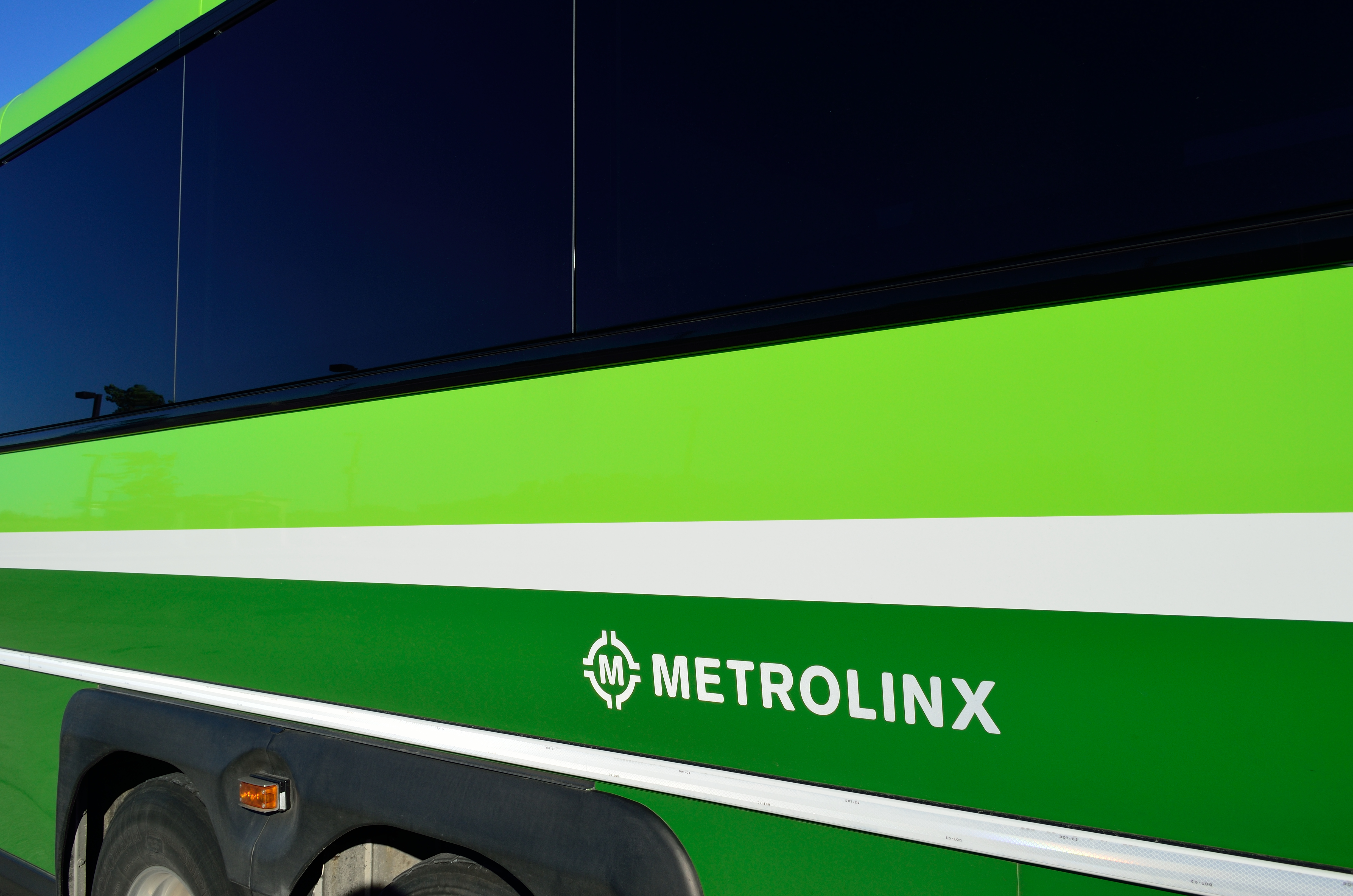 Metrolinx sign on a GO bus.